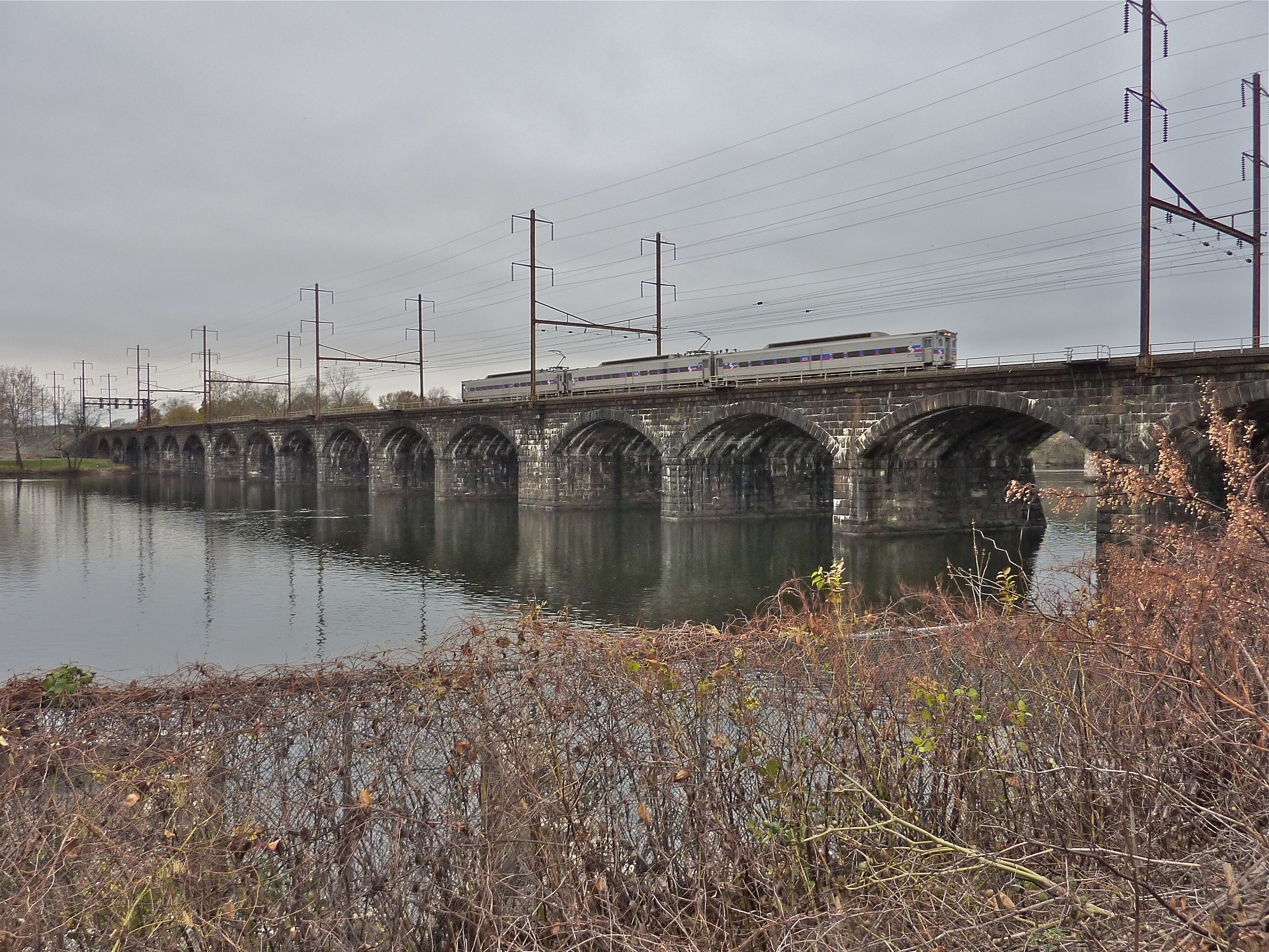 Morrisville–Trenton Railroad Bridge. SEPTA train crosses Delaware River on Pennsylvania Railroad stone arch bridge from Morrisville, PA to Trenton, NJ